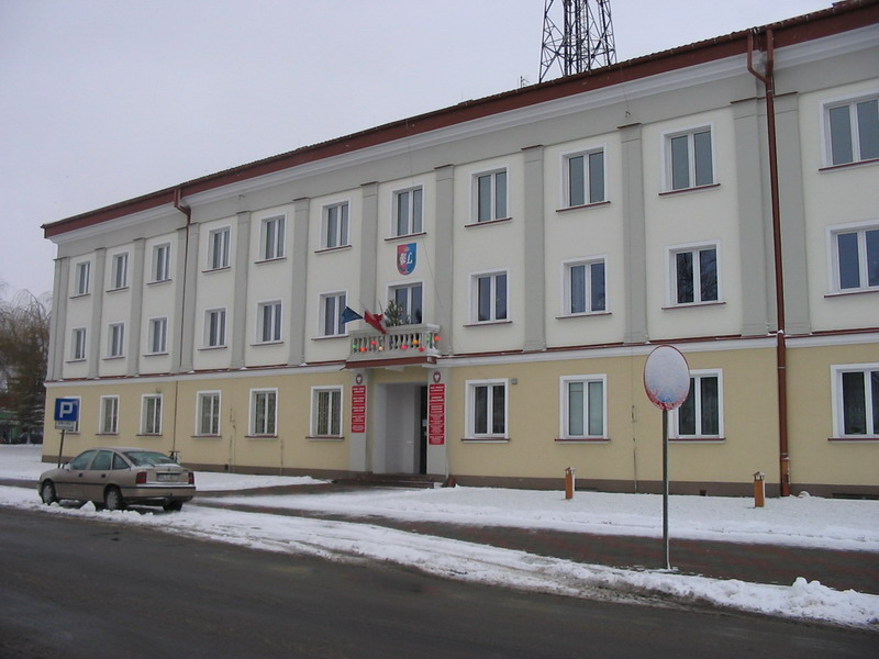 The office of the head of the county administration, Lubaczów, Poland